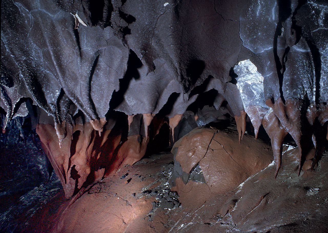 Shark tooth stalactites in a lava tube on the Big Island of Hawaii. This shows clearly how a flow of lava rose to coat another layer on to pre-existing stalactites.